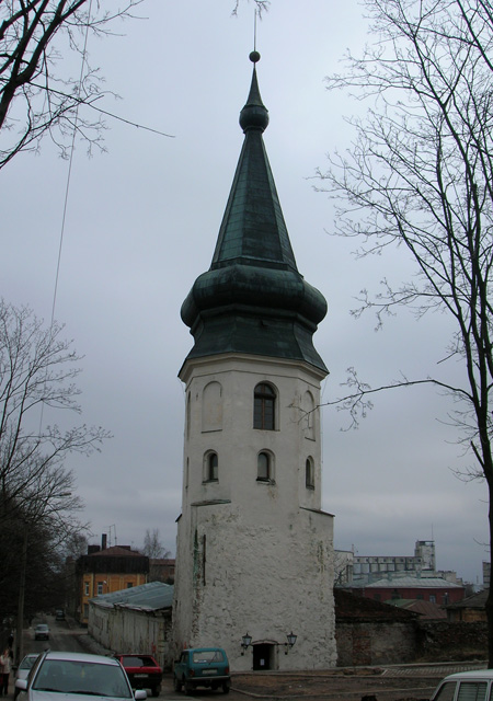 Rathaus tower in Vyborg (15th or 16th century)